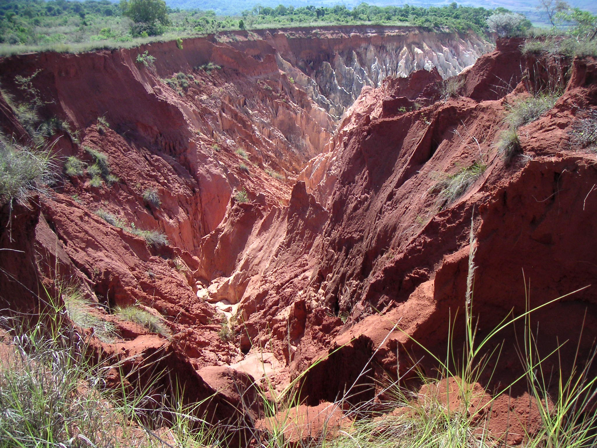 Lavaka (erosion gully) in Madagascar caused by deforestation.